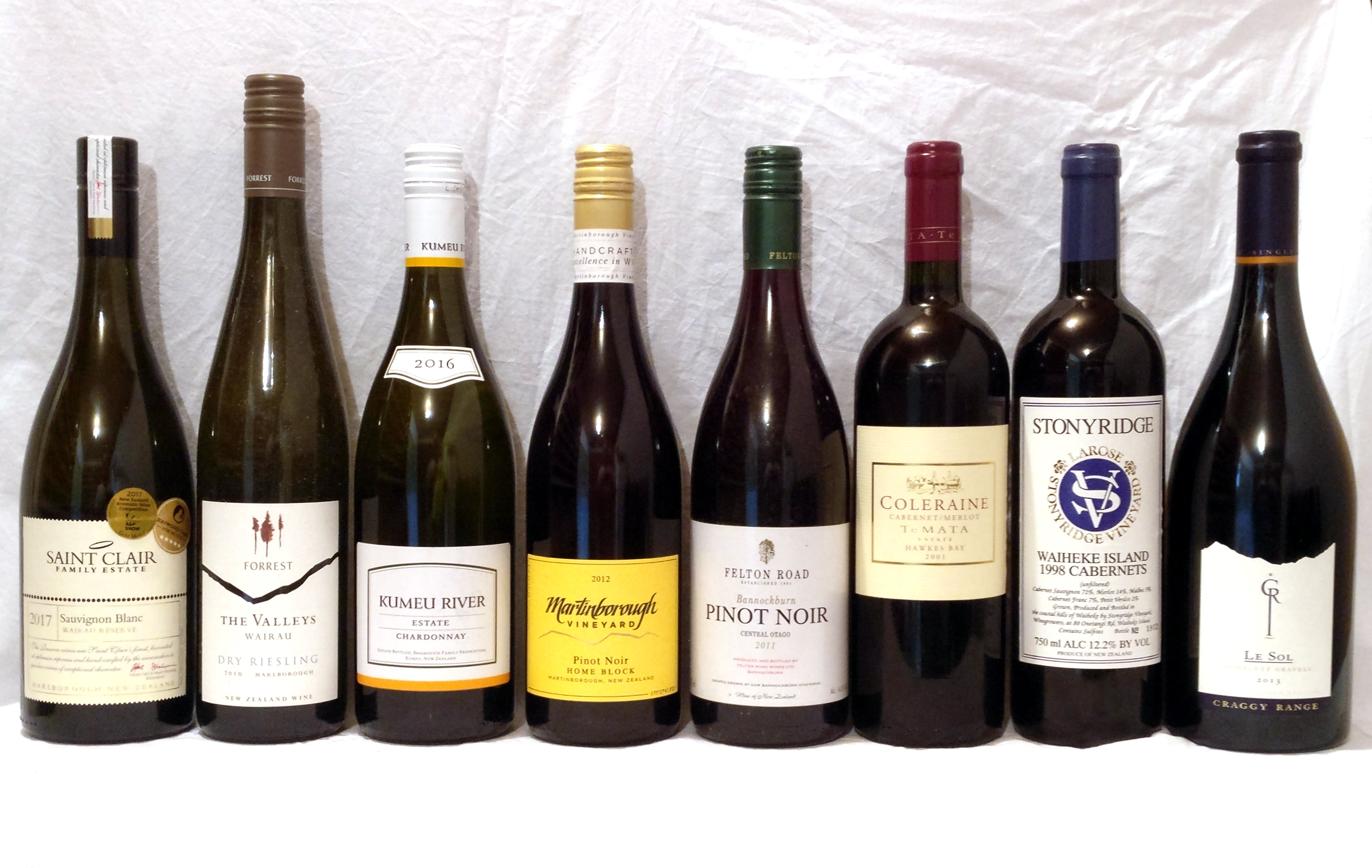 A selection of well reviewed and highly regarded New Zealand wines. Left to right: Saint Clair 2017 Wairau Reserve Sauvignon Blanc (Marlborough); Forrest Estate 2010 Wairau Riesling (Marlborough); Kumeu River 2016 Estate Chardonnay (Kumeu, Auckland); Martinborough Vineyard 2012 Pinot Noir (Martinborough, Wairarapa); Felton Road 2011 Bannockburn Pinot Noir (Central Otago); Te Mata Estate 2001 Coleraine (Hawke's Bay); Stonyridge Vineyard 1998 Larose (Waiheke Island, Auckland); Craggy Range 2013 Le Sol Syrah (Hawke's Bay).